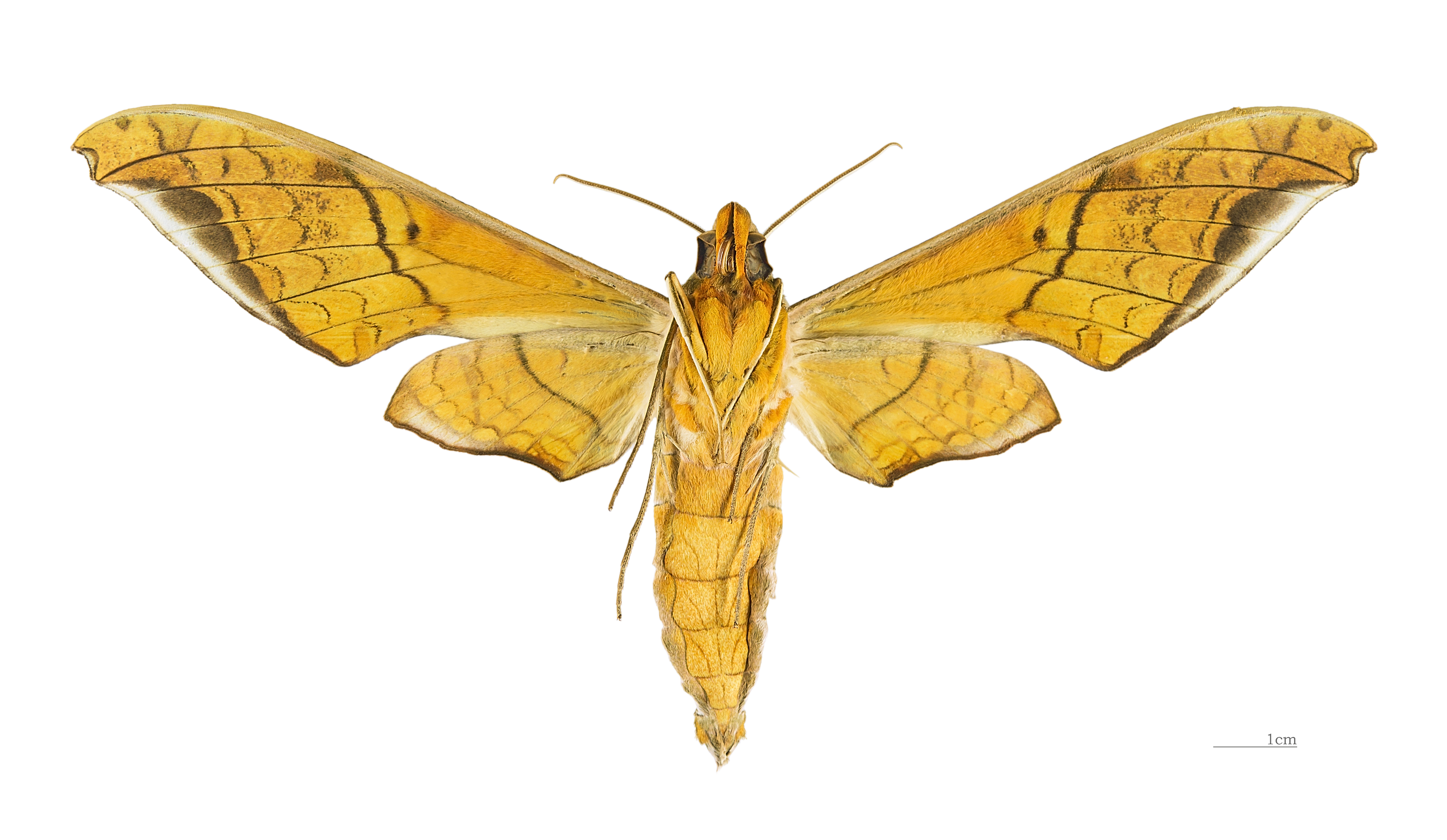 Protambulyx eurycles - △ Ventral side